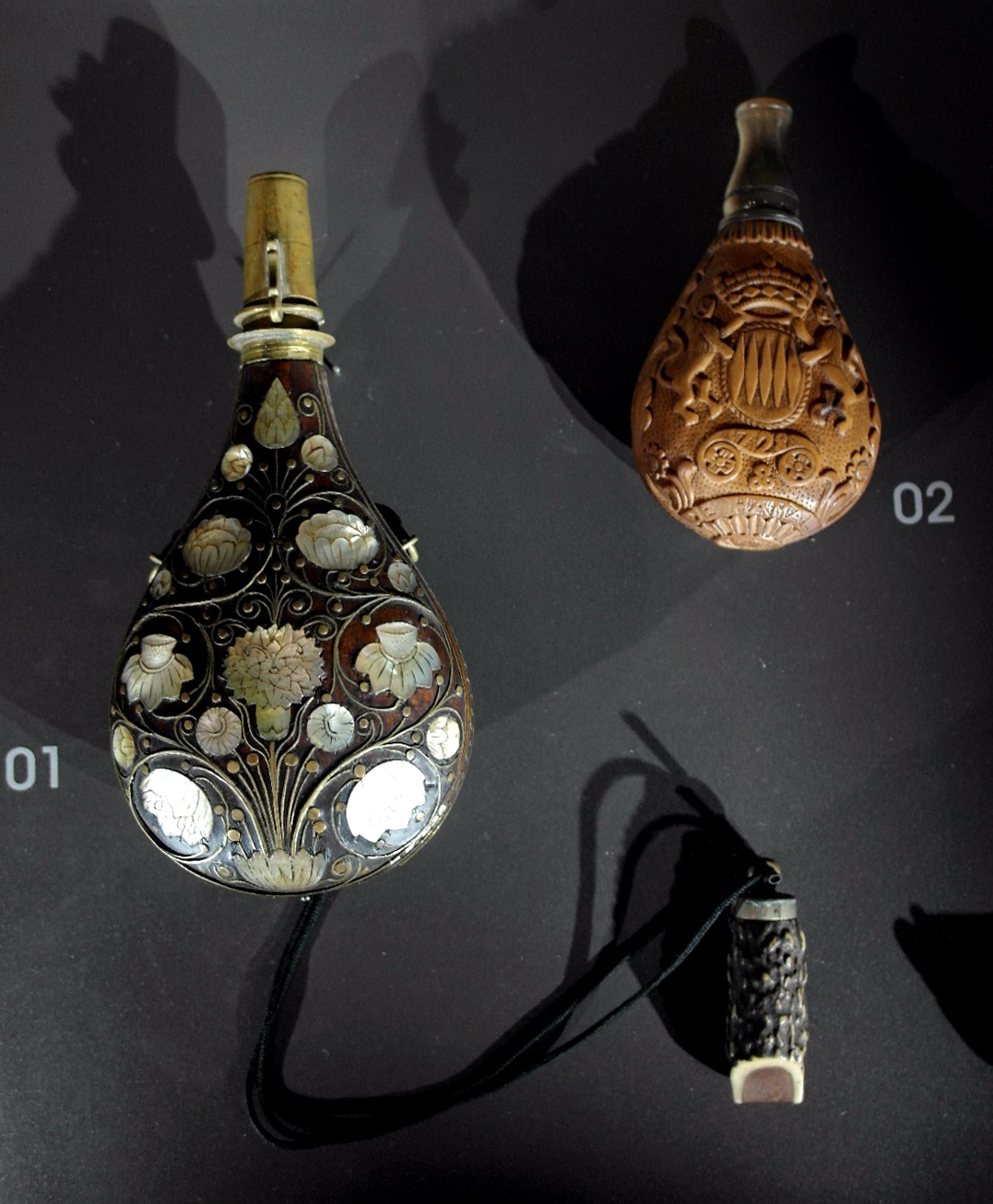 Liège, Belgium, weapons collection of the Musée des armes in the Grand Curtius.